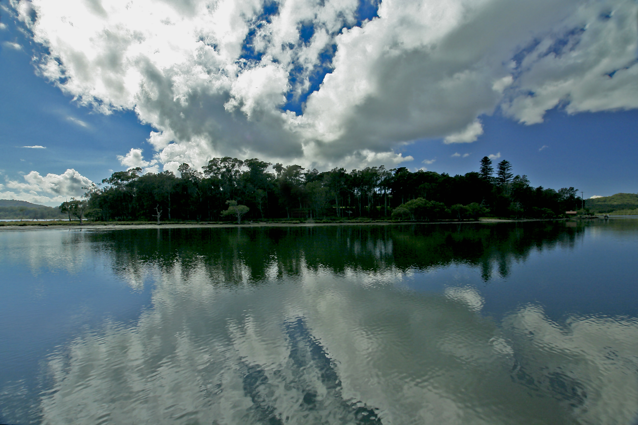 Amy St Wharf looking at Kincumber south